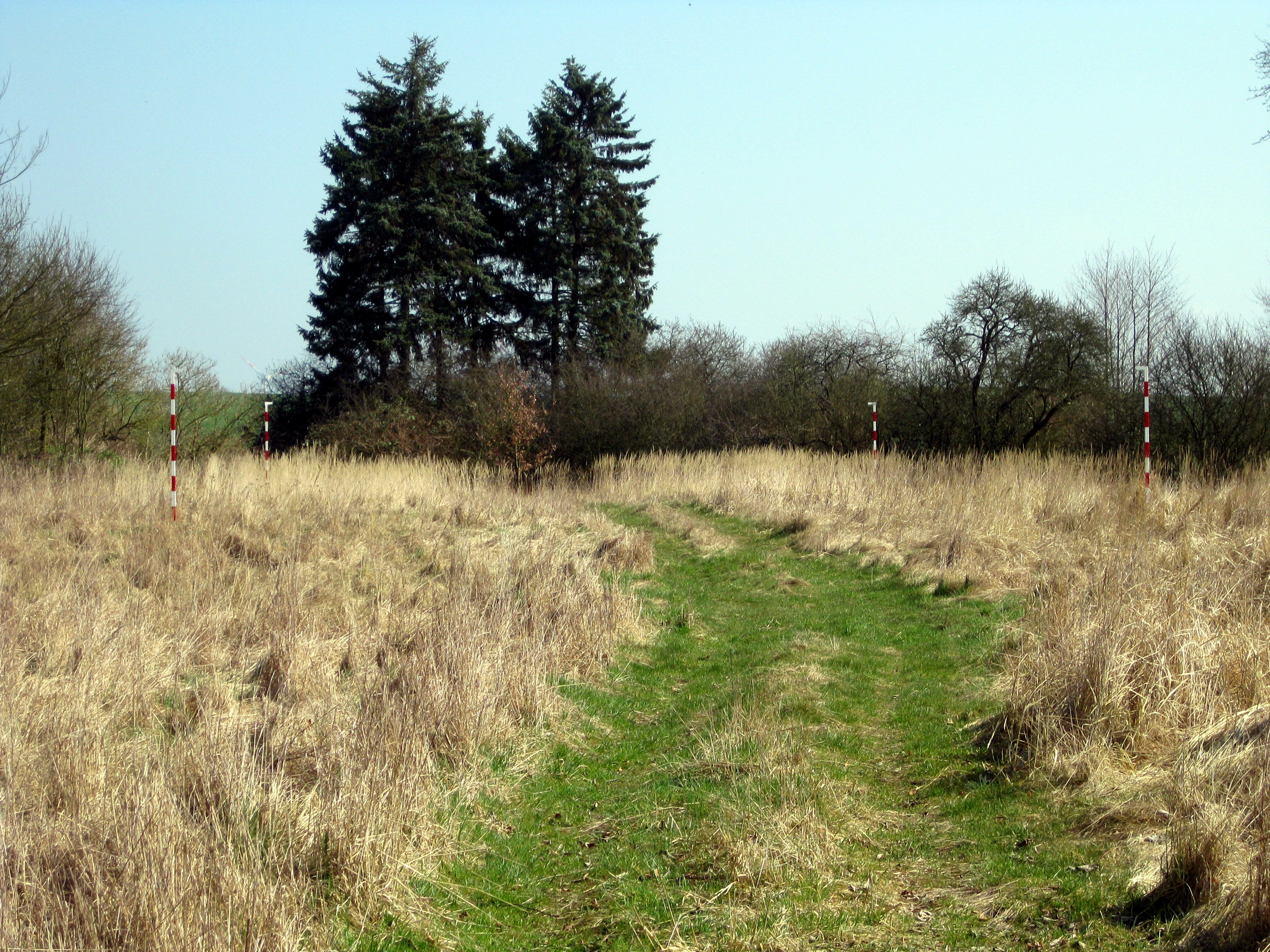 Site of former farmhouse in the abandoned village Bardowiek